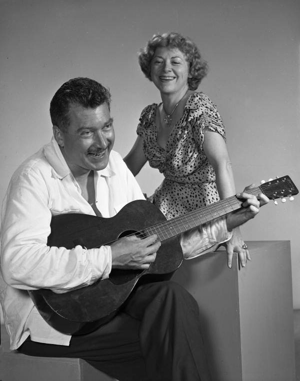 Local call number: JJS1059 Title: Novelist MacKinlay Kantor playing the guitar: Sarasota, Florida Date: July 29, 1950 General note: Kantor won the Pulitzer Prize for Fiction in 1956 for his novel Andersonville. Physical descrip: 1 photonegative - b&w - 5 x 4 in. Series Title: Joseph Janney Steinmetz Collection Repository: State Library and Archives of Florida, 500 S. Bronough St., Tallahassee, FL 32399-0250 USA. Contact: 850.245.6700. Persistent URL